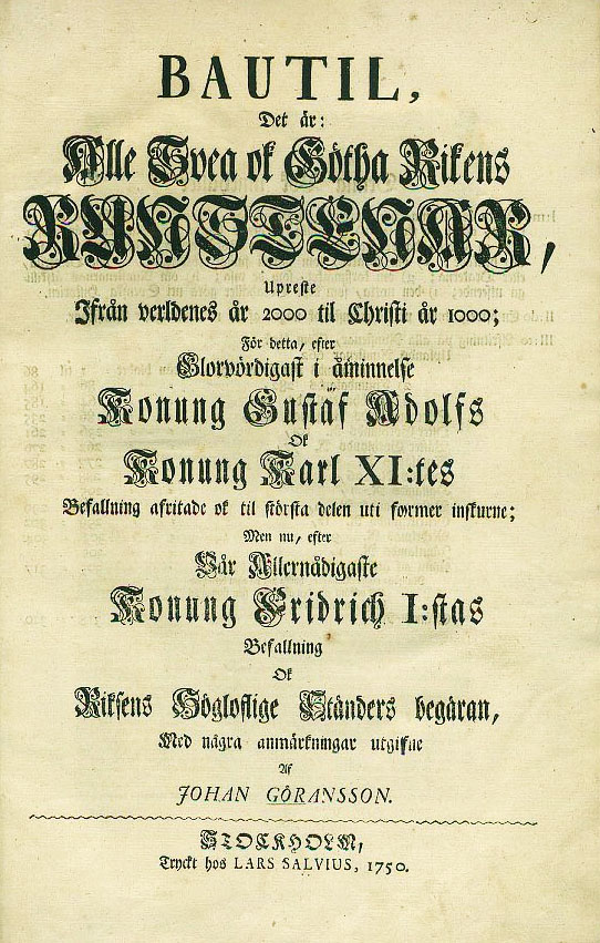 The frontpage of the swedish runological work "Bautil" (Stockholm 1750) by the Johan Göransson (1712-1769).